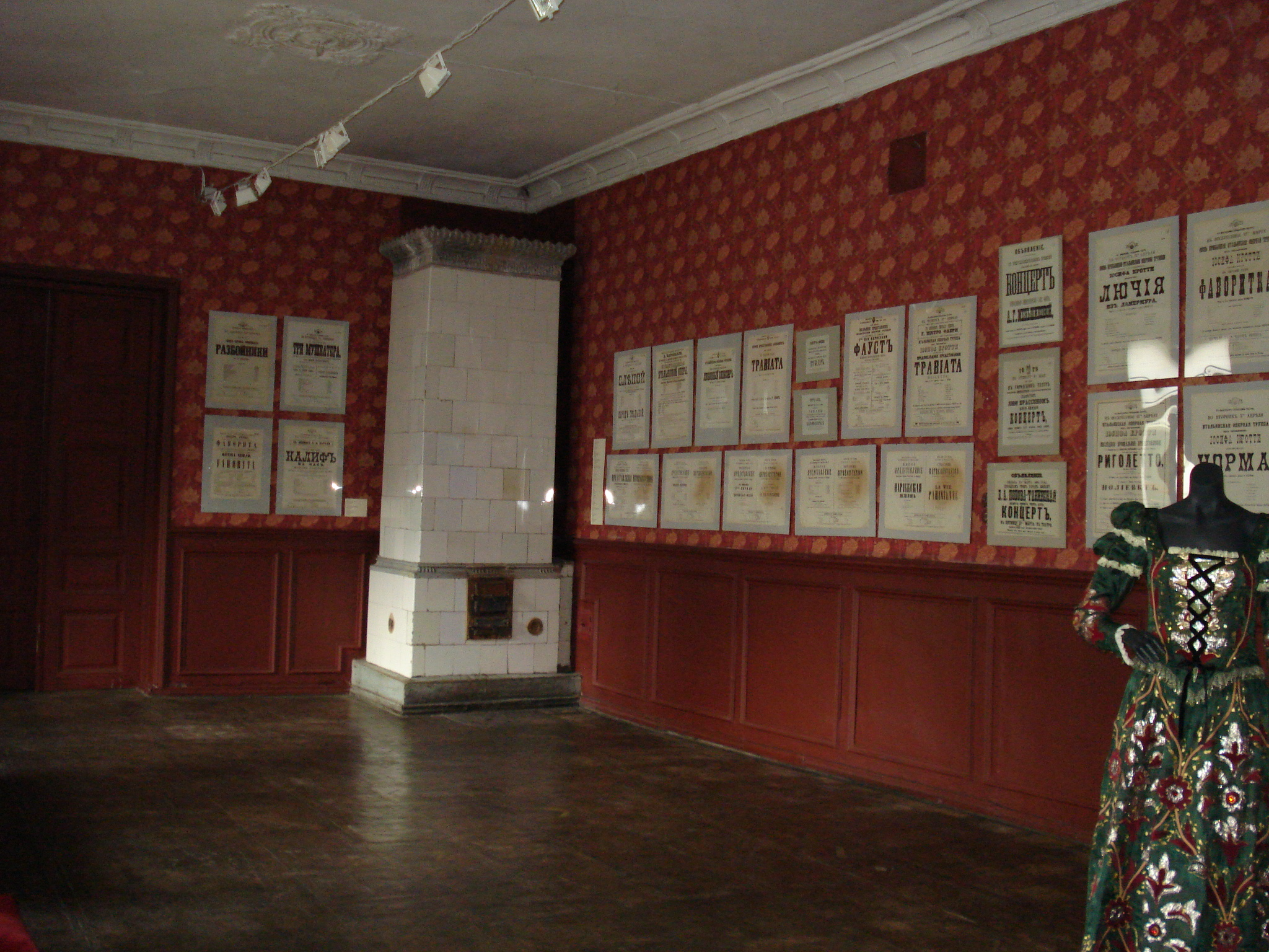 Posters exhibition at the Umiasowski Palace (Vilnius)